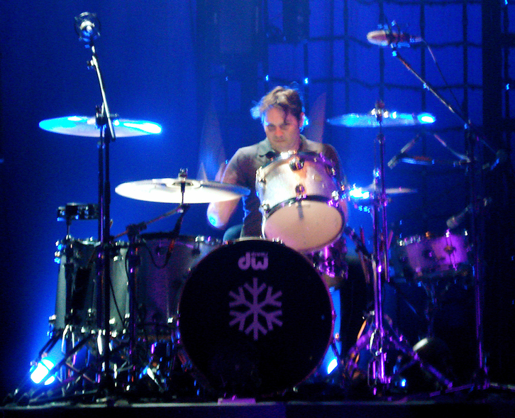 Snow Patrol drummer Jonny Quinn performing in Bank United Center at the University of Miami in Coral Gables, Florida on 19 March 2007. Photo taken by Wilhelm Gerdts.